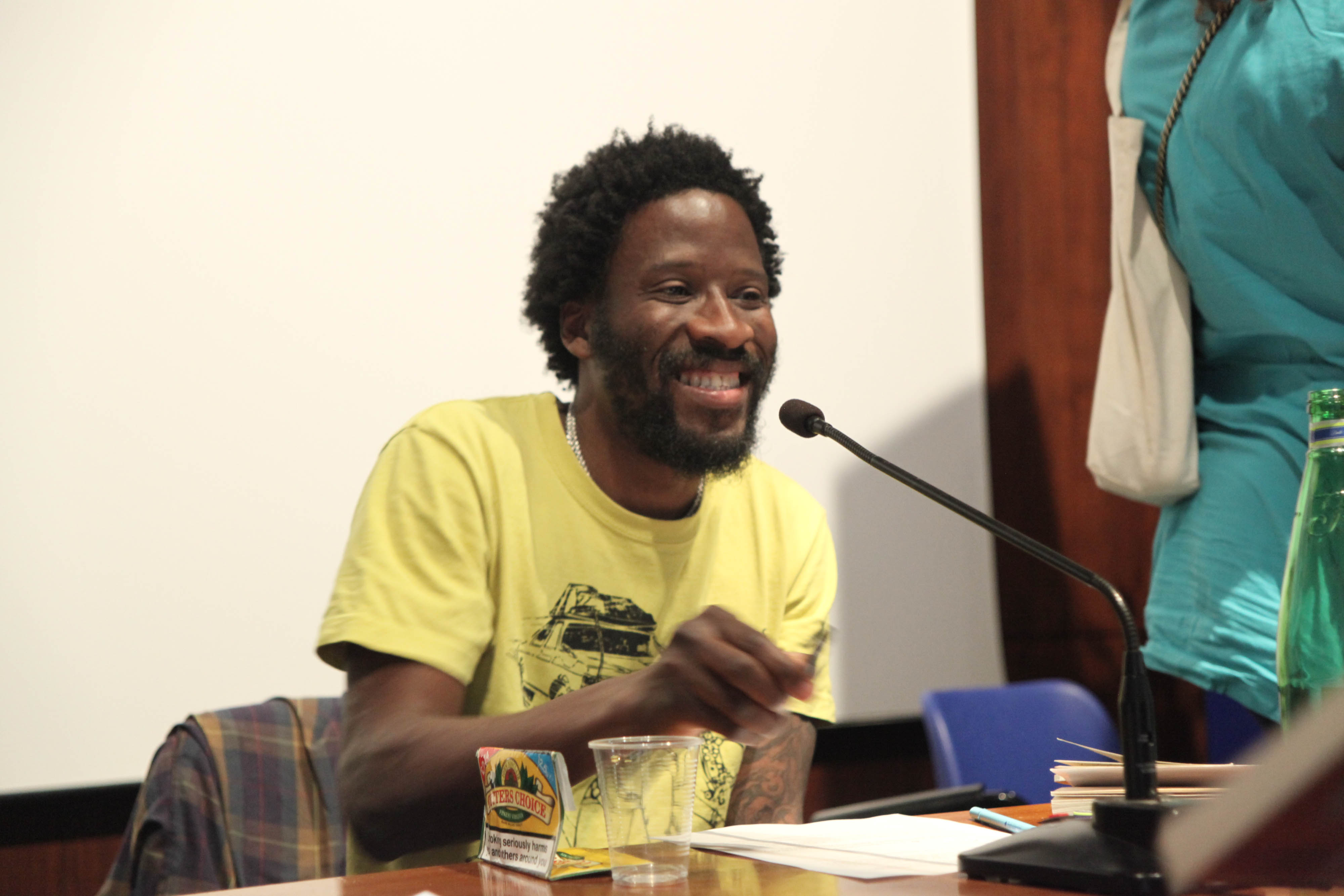 Jadelin Mabiala Gangbo Biography: "Africani d'Europa / africani in Europa", a round table organised by lettera27, curated by Paola Splendore and Sandro Triulzi , coordinated by Igiaba Scego with the authors Chika Unigwe, Jadelin Mabiala Gangbo and Najat El Hachmi. Mantova 09/12/09 have a look at the video: Know more about lettera27 Foundation